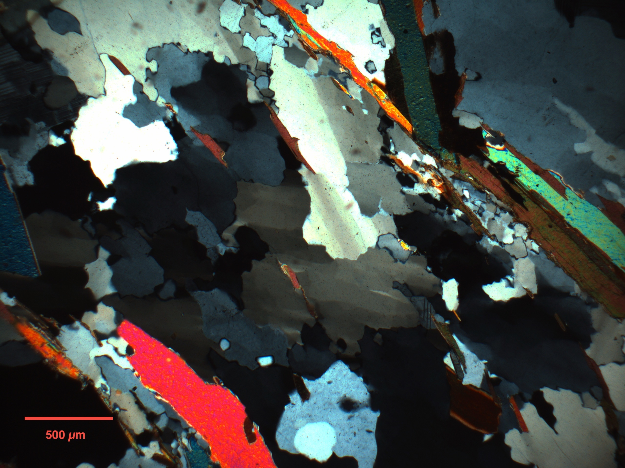 Thin section with quartz exhibiting dominant Grain Boundary Migration recrystallization.